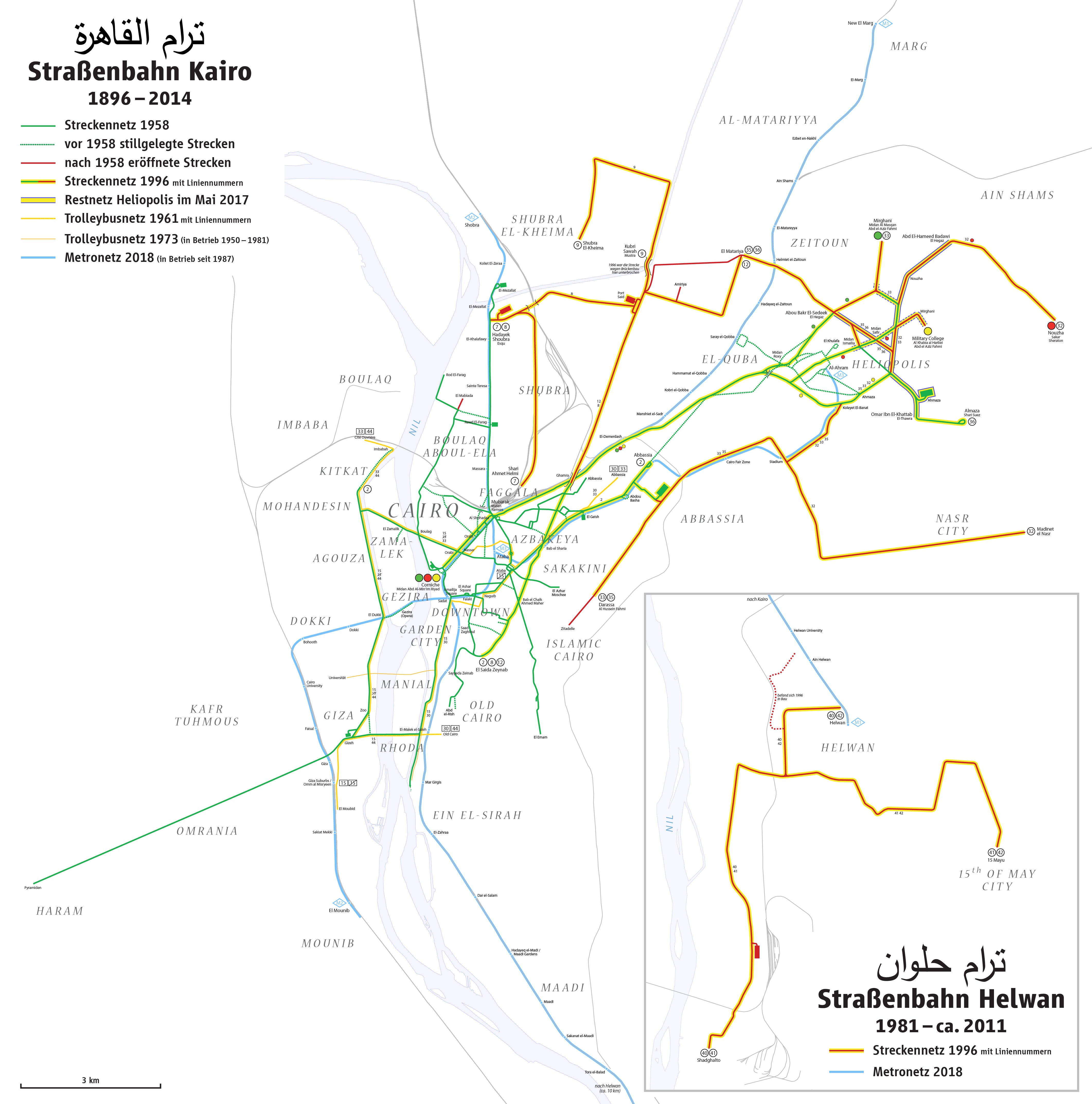 Map of the Cairo and Helwan tramways